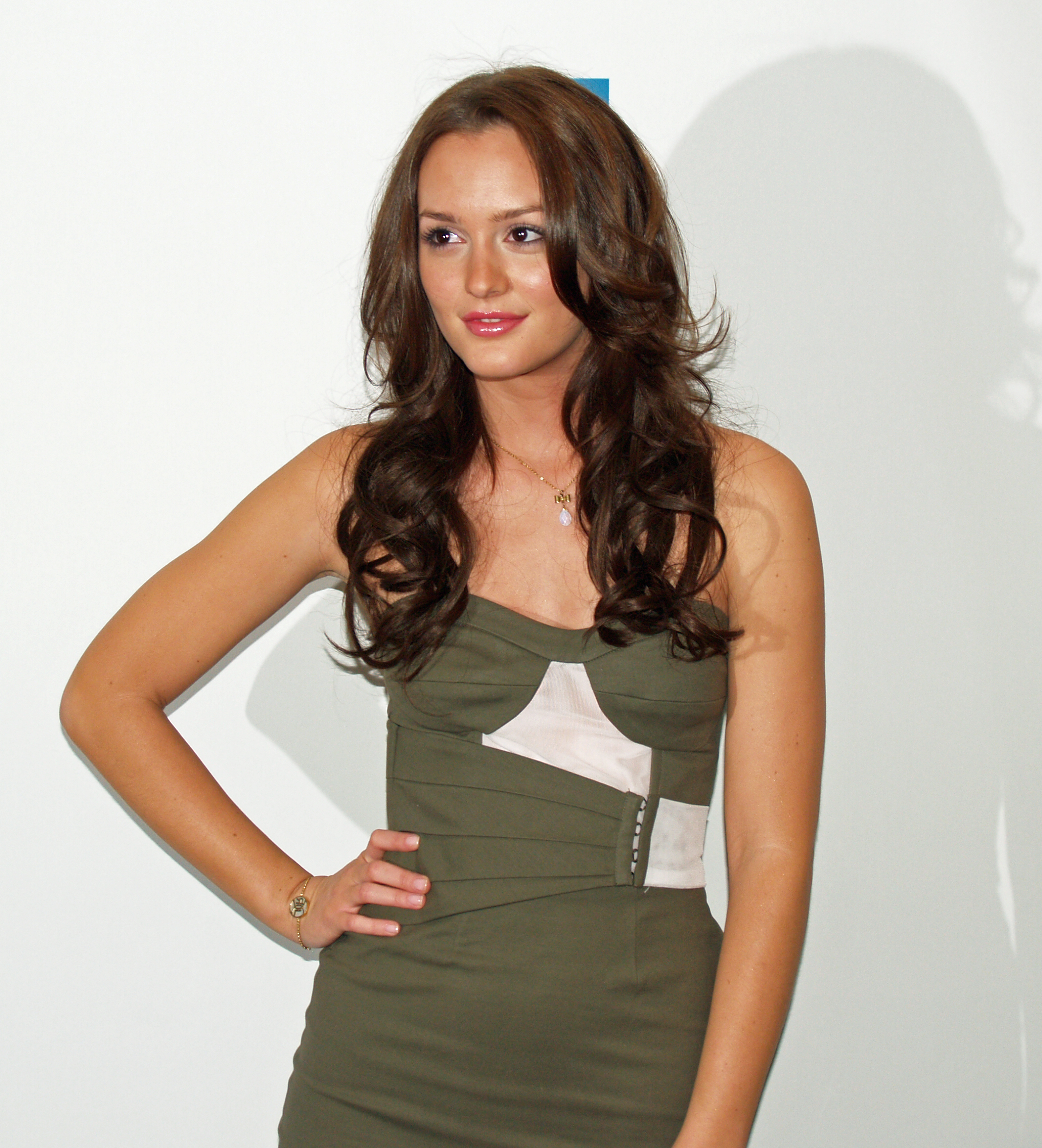 Leighton Meester from the television show "Gossip Girl" - at the 2008 Tribeca Film Festival premiere of "Killer Movie" I explain what drove my photography and interviews here. Columbia Journalism Review article about David Shankbone (sorry for the pimping)